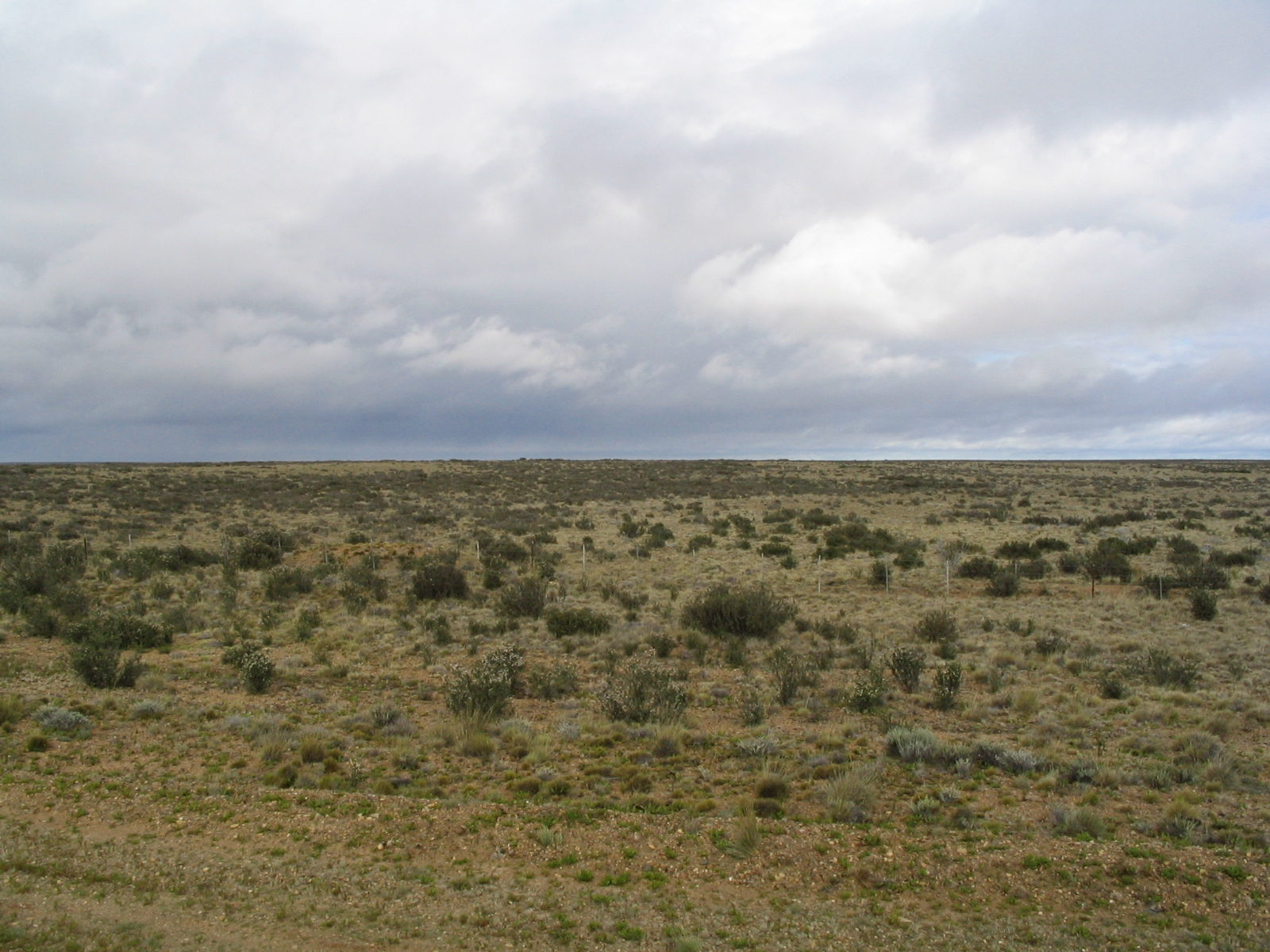 The flat alluvial plains of Patagonia near Fitz Roy, Santa Cruz, Argentina